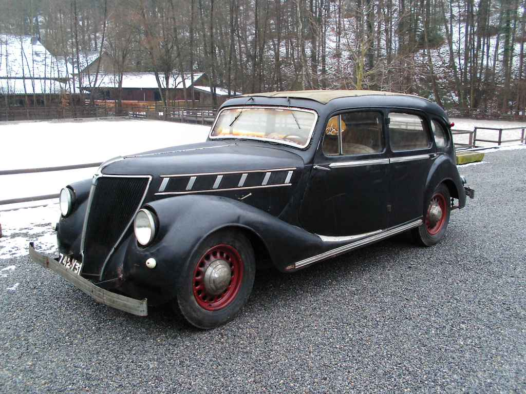 the only known Renault Vivastella, seen in Eupen, now in Austria